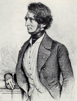 Contemporary engraving of Hector Berlioz (1803 – 1869) in Vienna [1]